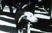 Turhal İstasyonu 1930